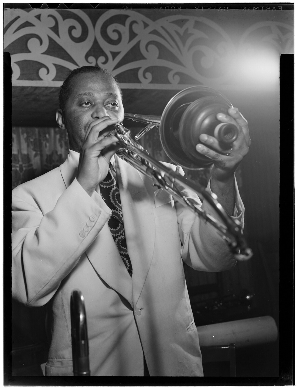 Wilbur De Paris, Aquarium, New York